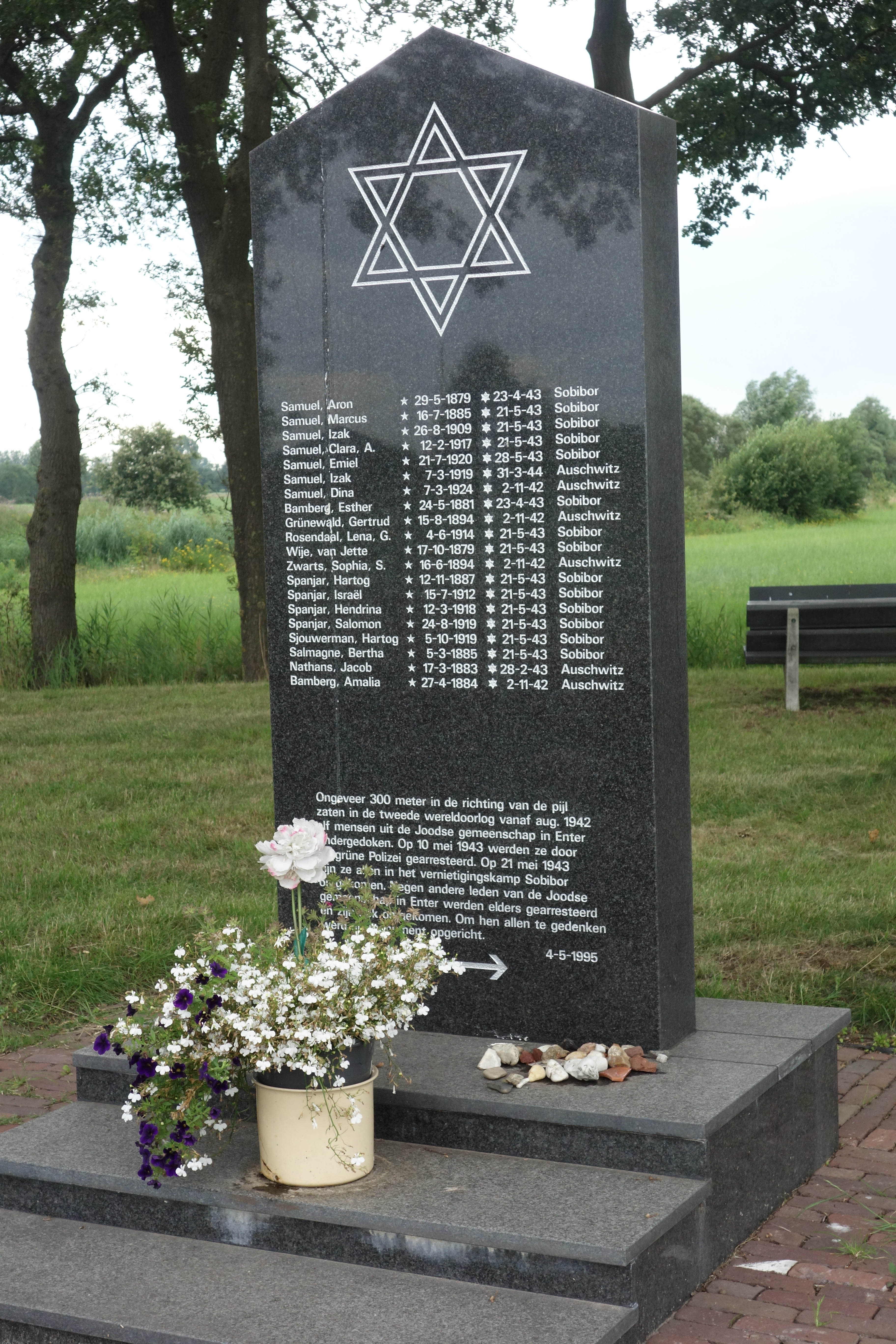 World War II memorial in Enter, 2020